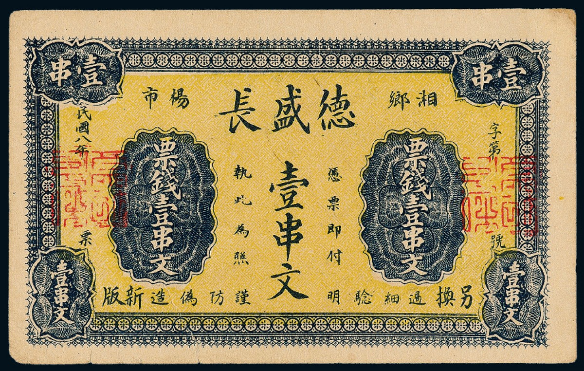 A banknote issued by a private Chinese bank during the period when the government of the Republic of China still administered the Chinese Mainland.